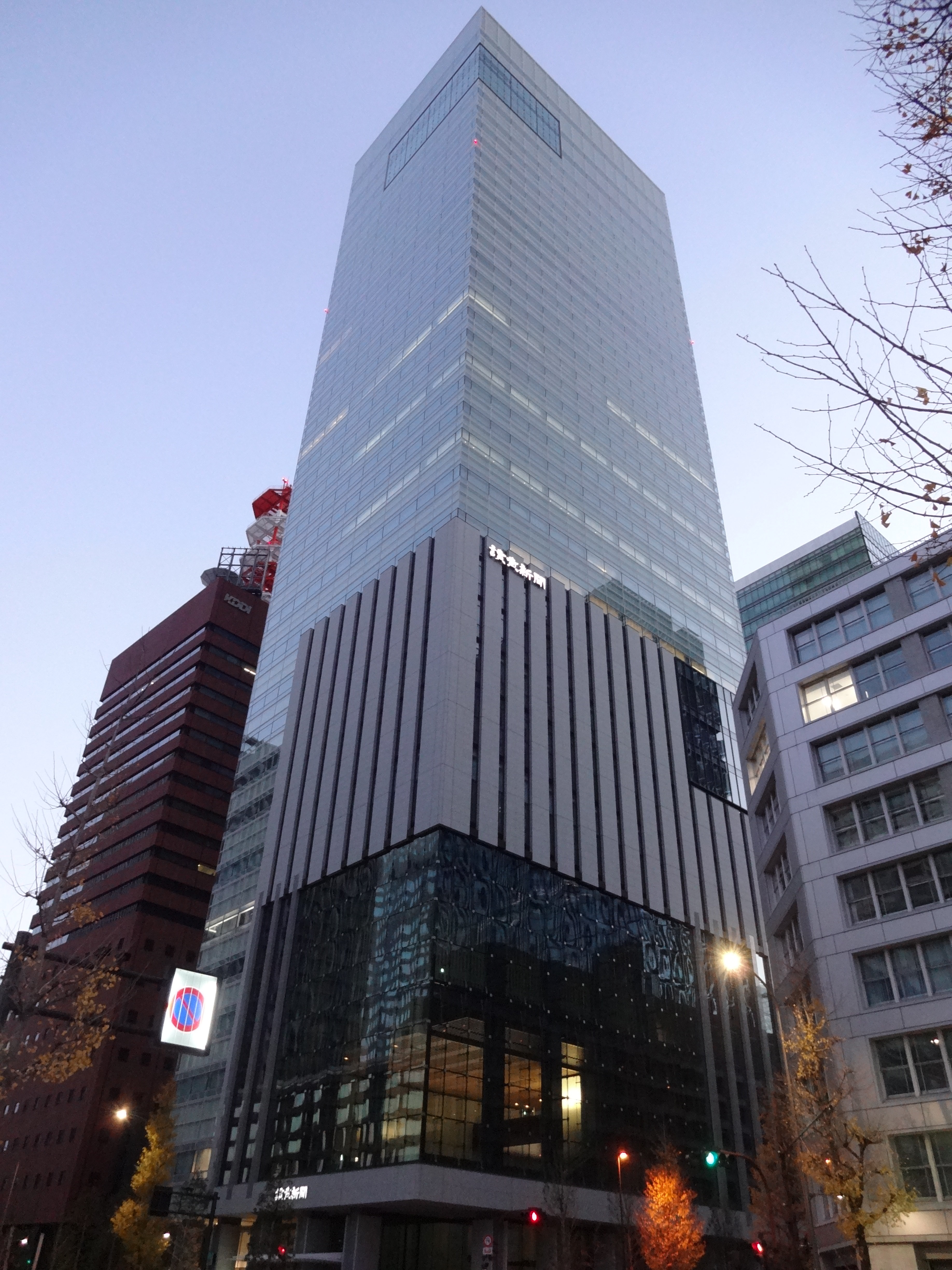 Yomiuri Shimbun headquarters (Exterior)